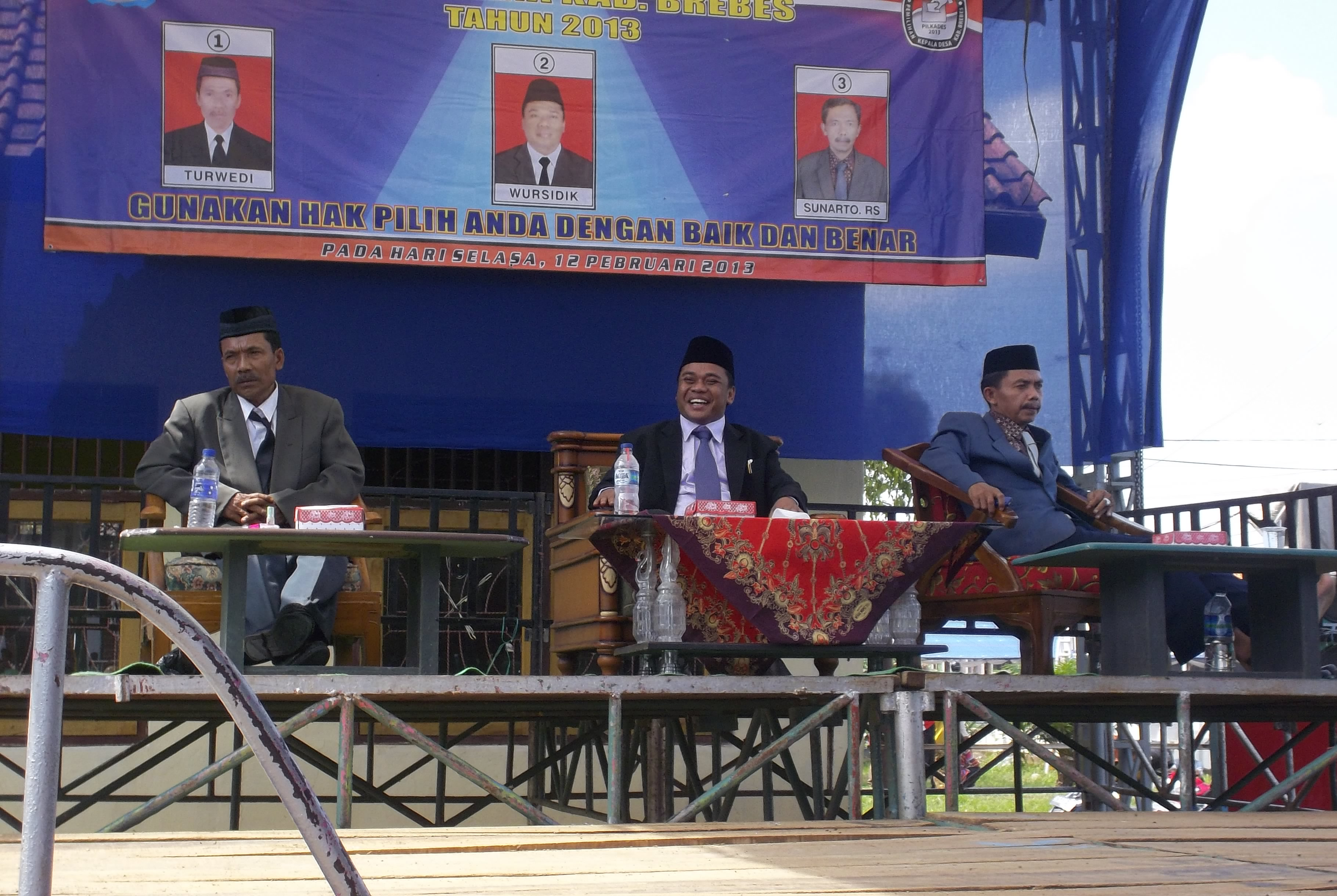 Elections of village heads in the Sutamaja Central Java, Indonesia.